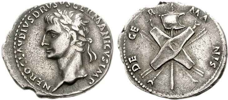 Nero Claudius Drusus. Died 9 BC. AR Denarius (3.64 g, 6h). Lugdunum (Lyon) mint. Struck under Claudius, circa AD 41-42. NERO CLAVDIVS DRVSVS GERMANICVS IMP, laureate head left DE GE-R-MA-NIS, two shields, two pair of spears, and two trumpets crossed over vexillum. RIC I 74 (Claudius); von Kaenel type 13; Lyon 25 (Claudius); RSC 6; BMCRE 107 (Claudius); cf. BN 7-8 (Claudius, Aureus).